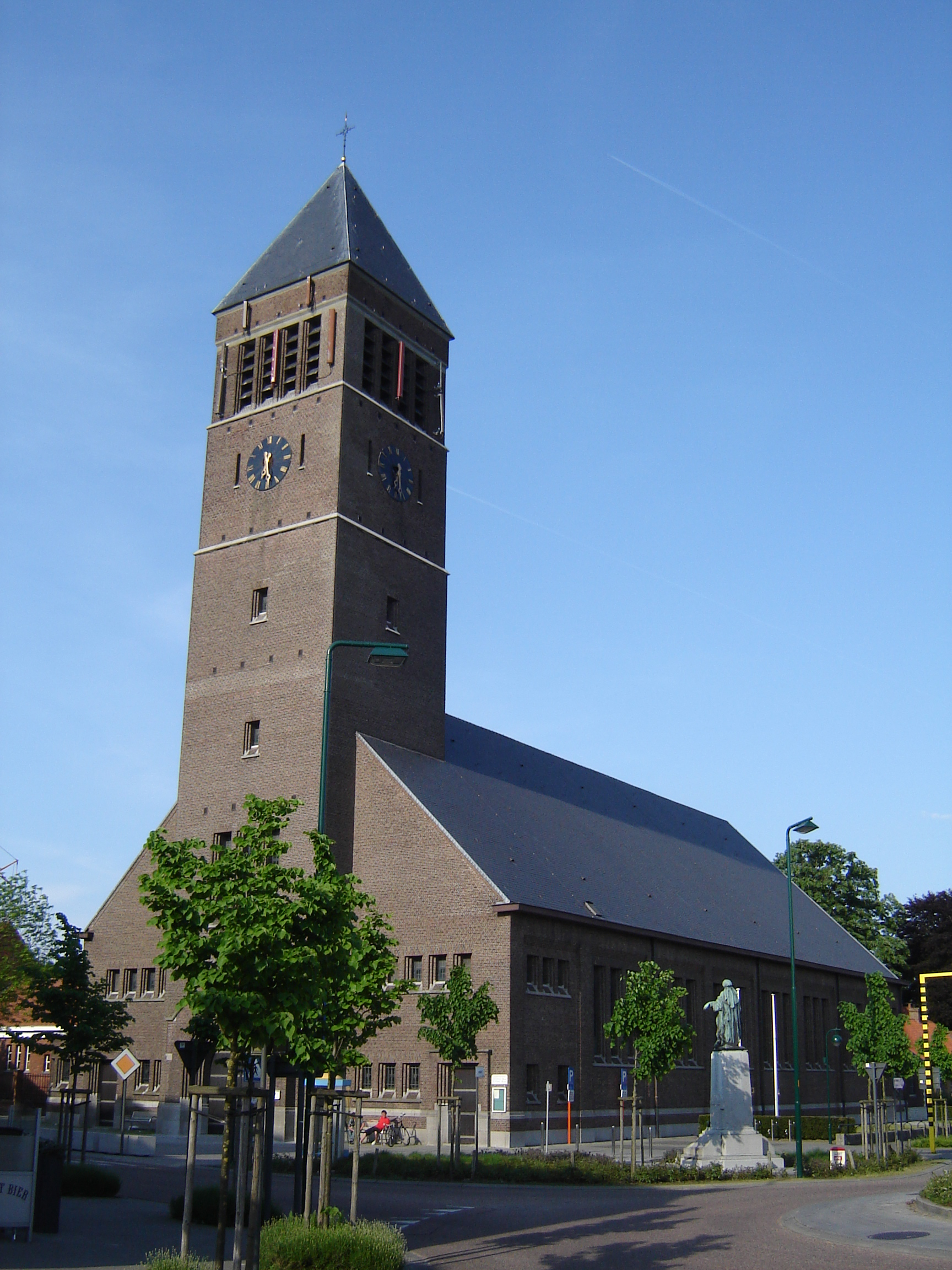 Church of the Assumption of Mary in Ertvelde. Ertvelde, Evergem, East Flanders, Belgium